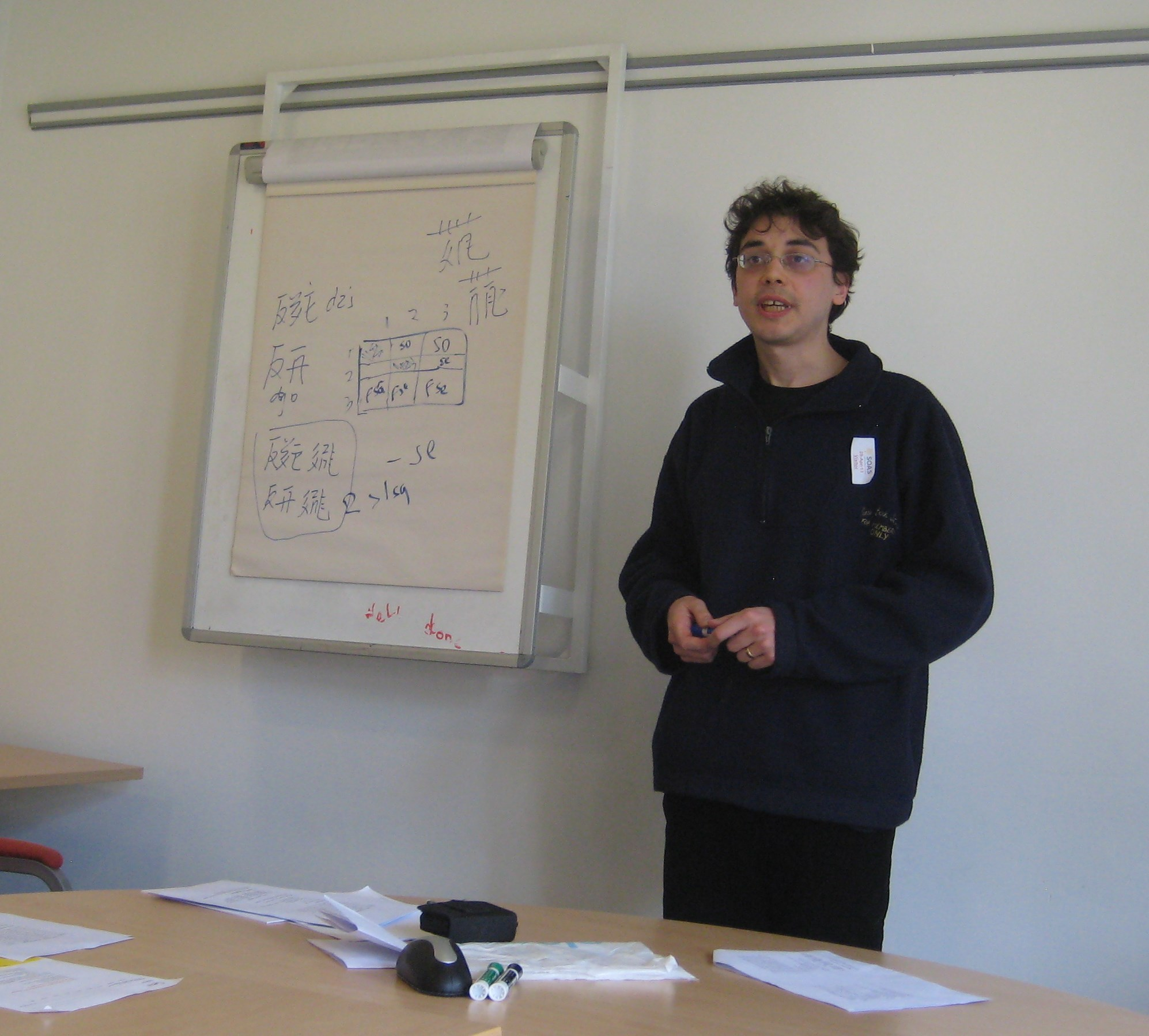 Guillaume Jacques presenting a talk entitled "A comparative perspective on the Tangut verb" at the Day of Tangut Studies event at SOAS, University of London, 25 April 2013.